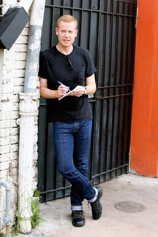 McDonald in New Orleans in 2014